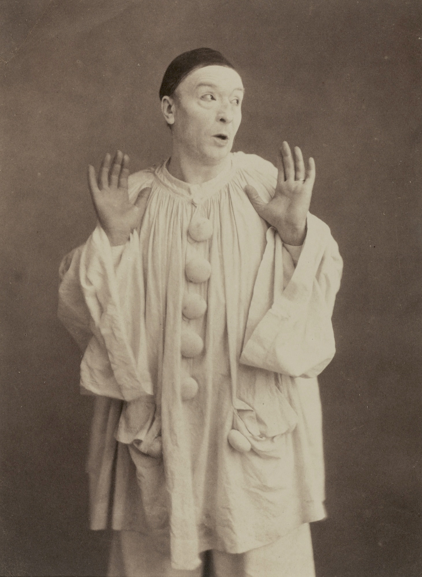 Salt print of Paul Legrand as Pierrot the clown